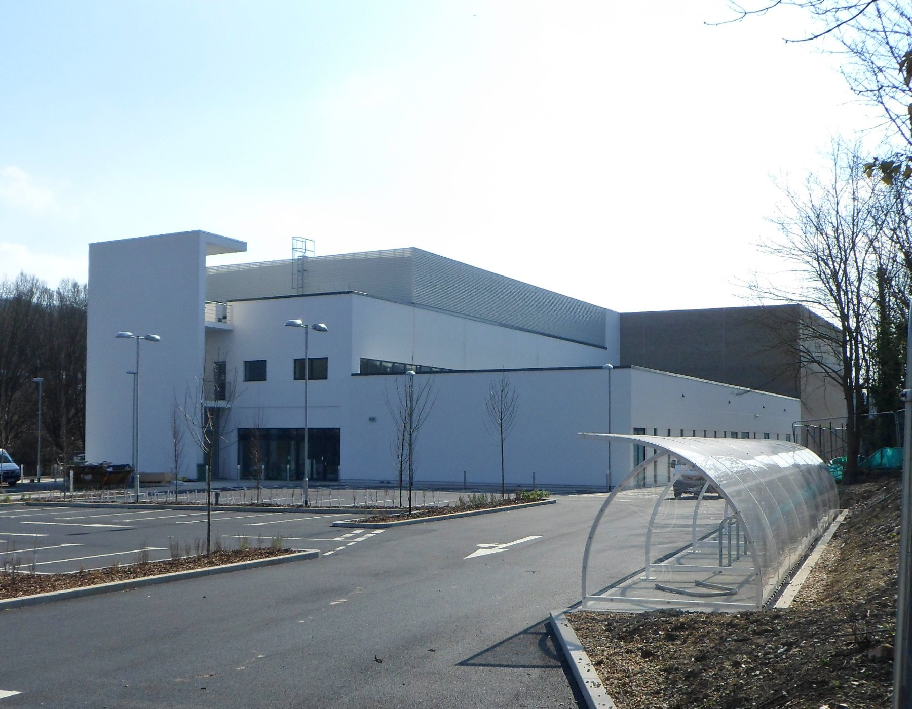 The Keep under construction in April 2013, viewed from the northwest through the surrounding fence. The Keep is an archive and historical resource centre situated at Woollards Field, between Moulsecoomb and Falmer, on the edge of the City of Brighton and Hove, England. It will open in 2013 and will house East Sussex County Council's archives and records (going back over 900 years) and various other sets of historical documents and objects.